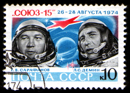 USSR stamp, "Soyuz-15", 1974, 10k.